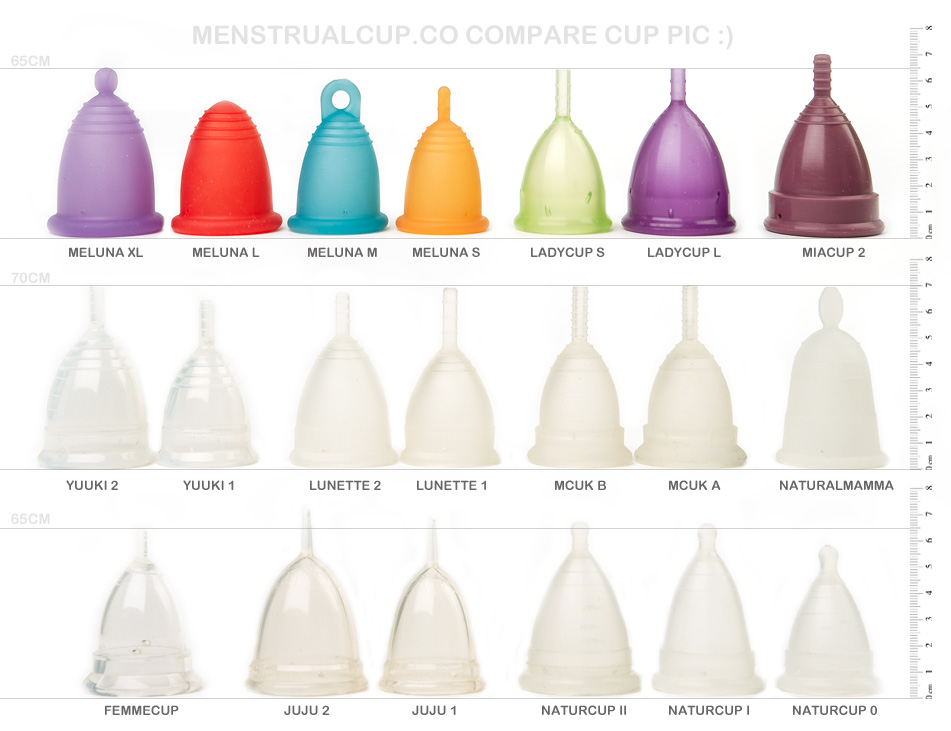 Menstrual cups comparison photo